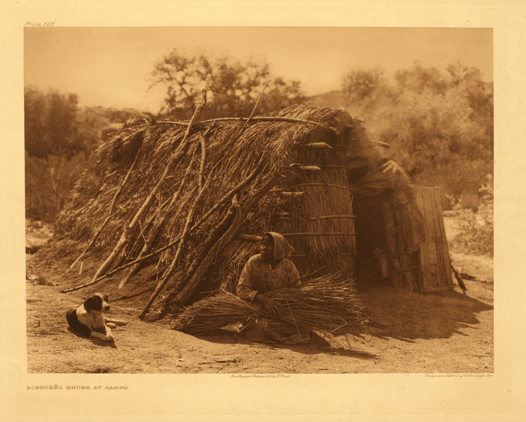 Kumeyaay woman in front of her traditional house at Campo. Kumeyaay people − Diegueno — of present day San Diego County, California. From "The North American Indian" − by Edward S. Curtis.